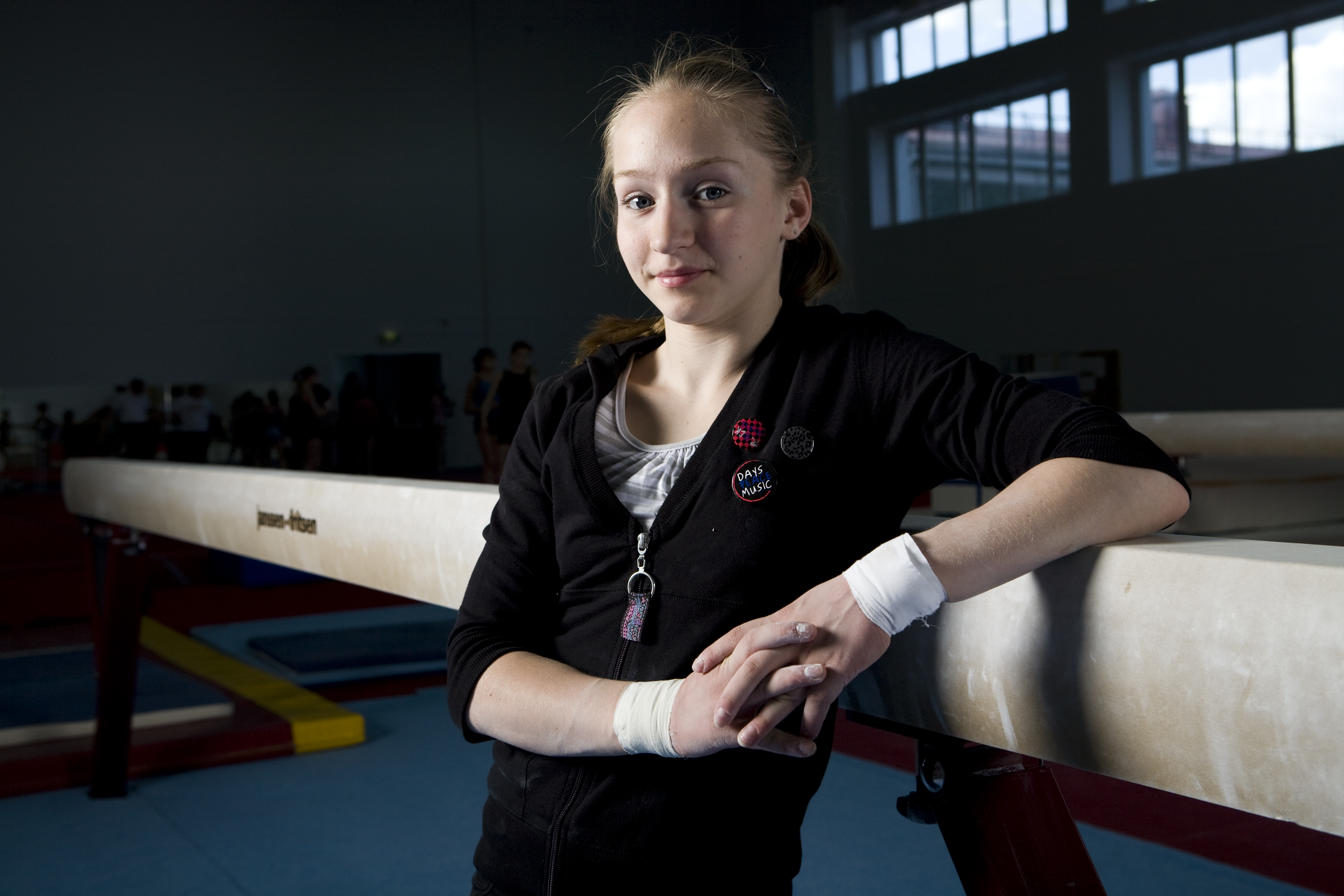 Semenova Ksenia, russian artistic gymnast